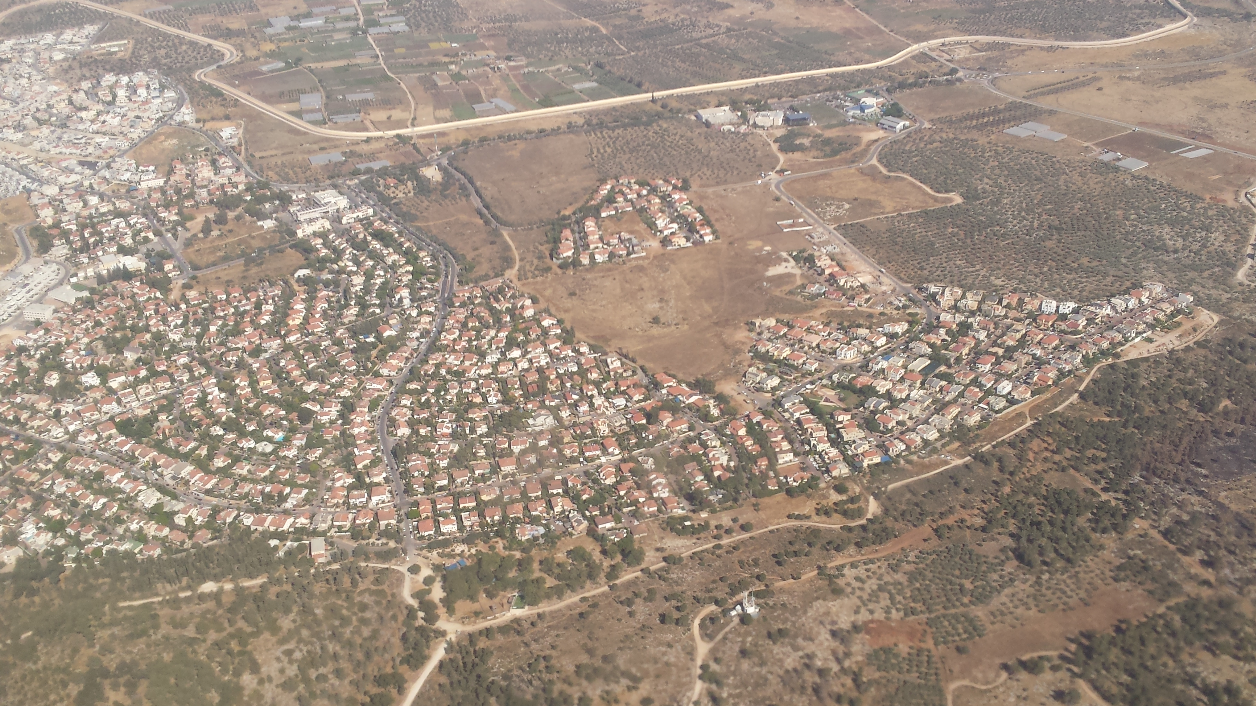 despite the name of the file, the picture is of Oranit. the picture was taken in a south west direction. The separation wall is clearly seen. On the right near the wall is the Oranit sport center